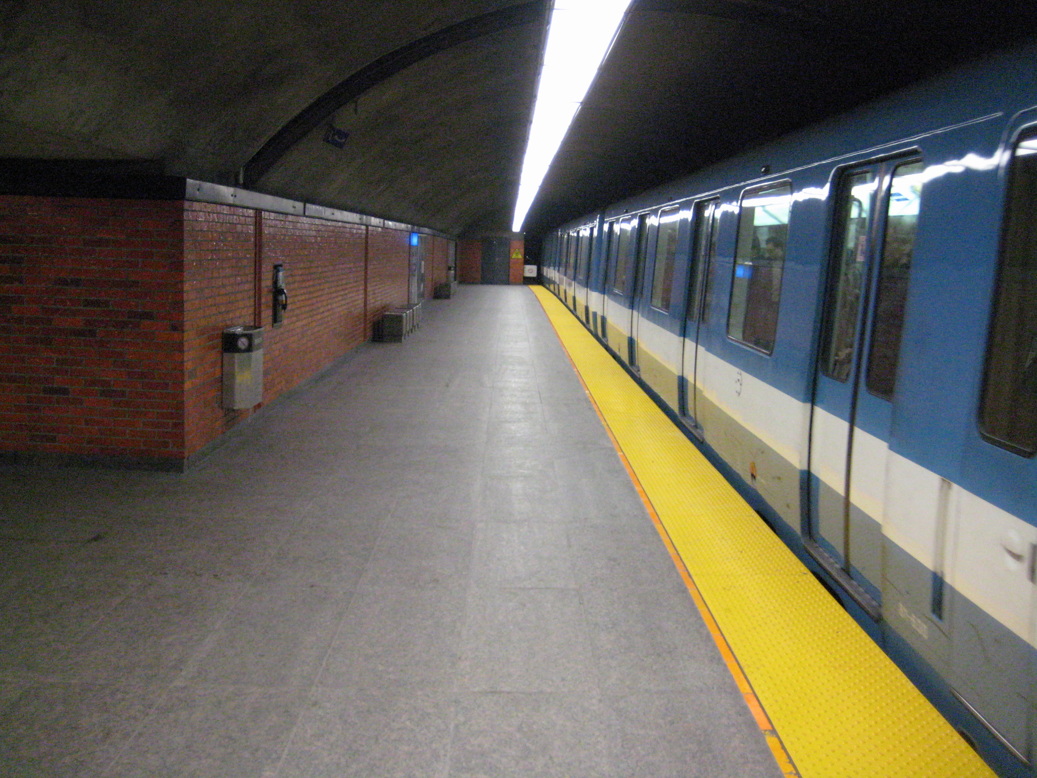 Charlevoix's station platform 2010